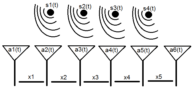 It is an Image that represents a sensor array